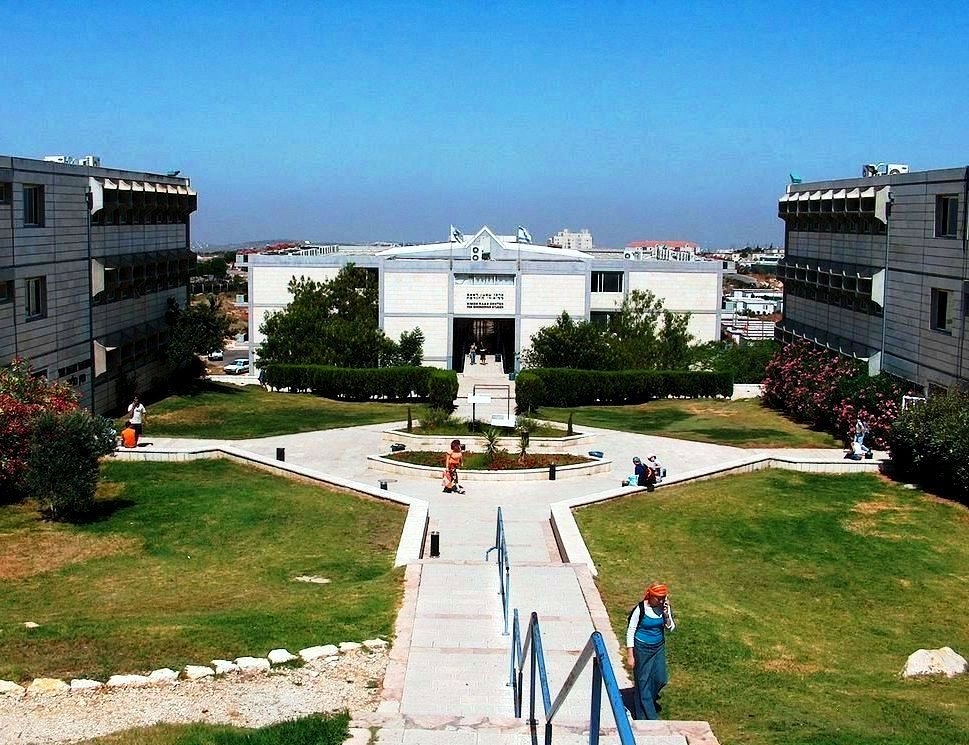 Ariel University Center of Samaria